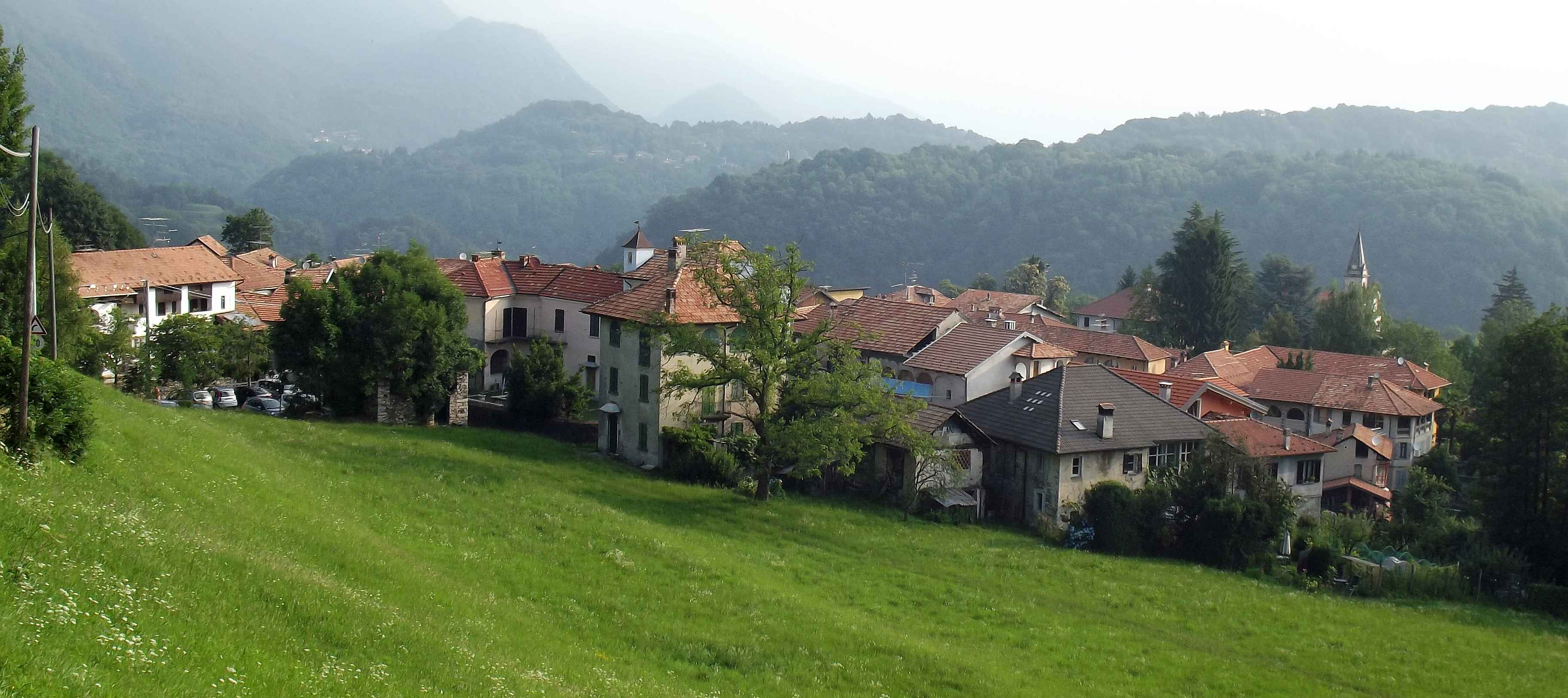 Artò (Madonna del Sasso, VB, Italy): panorama